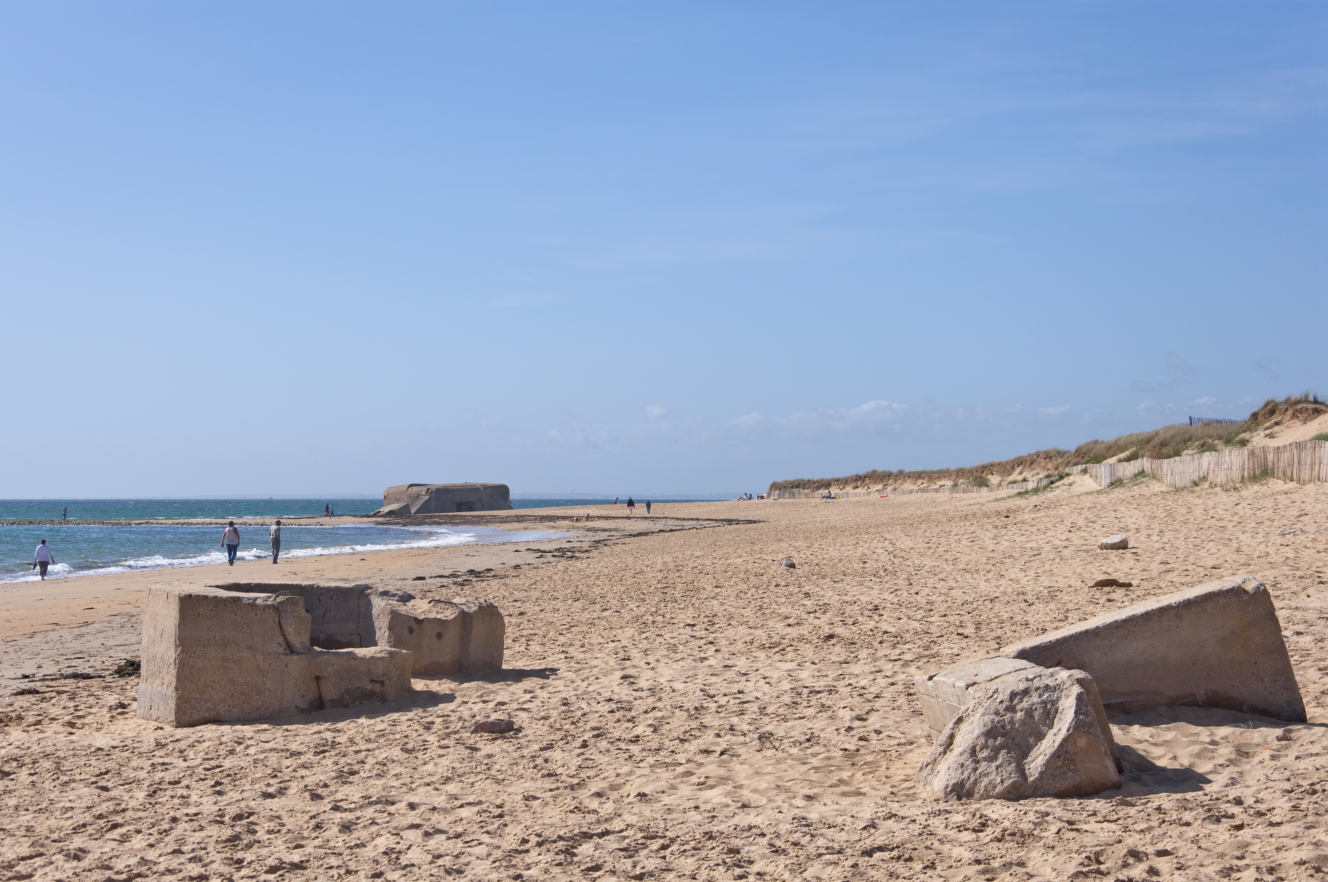 Remains of the Atlantic Wall on the Kerouriec beach in Erdeven (Morbihan, Brittany, France). In the background, the “Roche Sèche” (‘Dry Rock’) bunker.